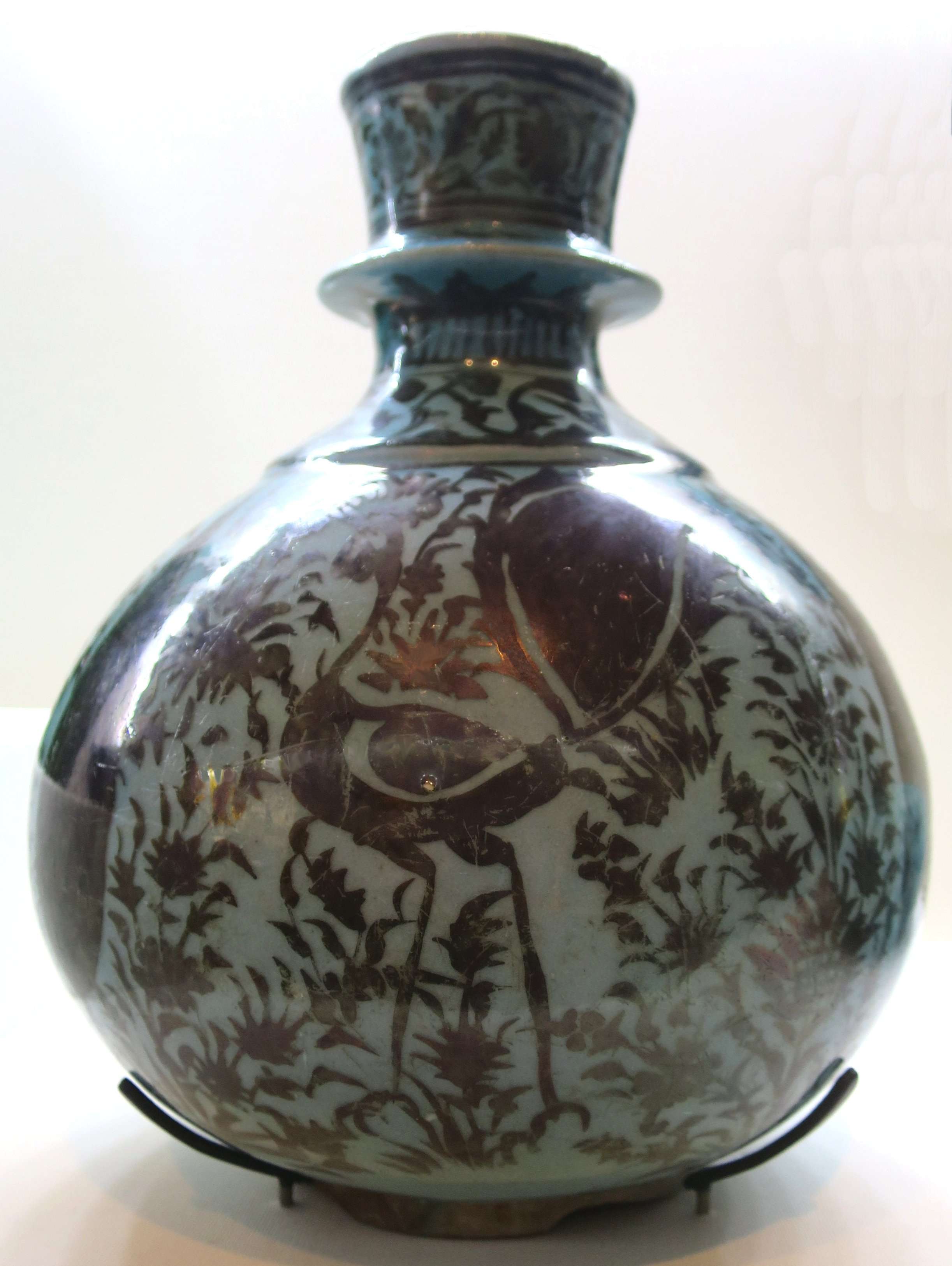 Base of a ghalian (water pipe) from Iran, mid-late 17th century, stonepaste underglaze painted in turquoise and overglaze painted in luster, Doris Duke Foundation for Islamic Art accession 48.310